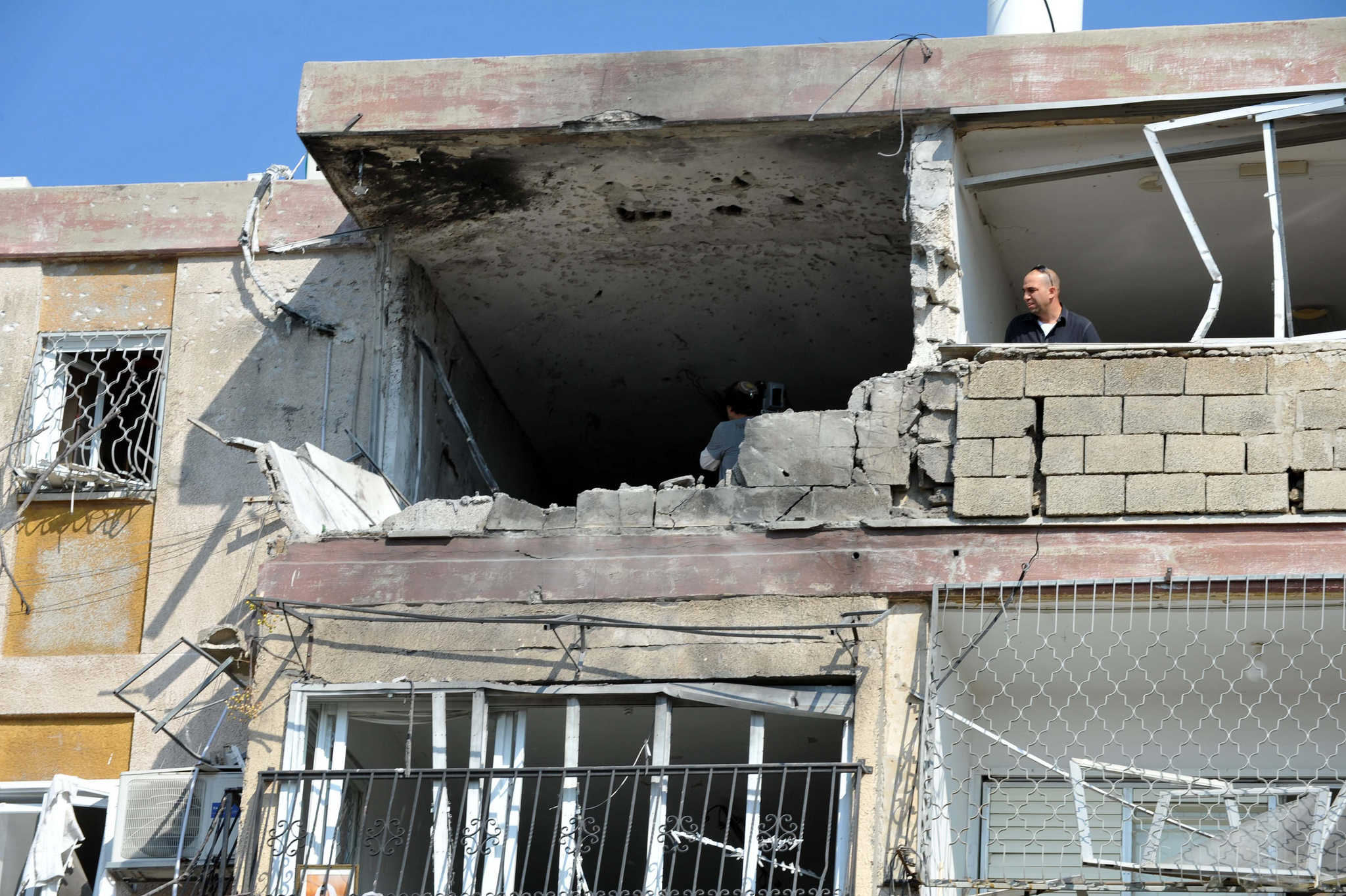 Photos by David Katz / The Israel Project. Apartment building in the Israeli town of Kiryat Malachi that took a direct hit from a Hamas rocket. 3 residents were killed, and several others seriously wounded including an 18-month old baby.